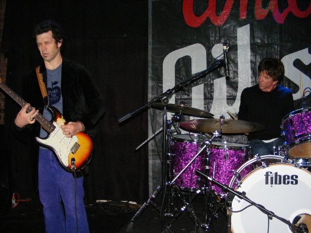 ARC Angels peforming at Antone's in Austin, Texas during South by Southwest (2009). Doyle Bramhall II and Chris Layton (L - R). Photo by Ron Baker.